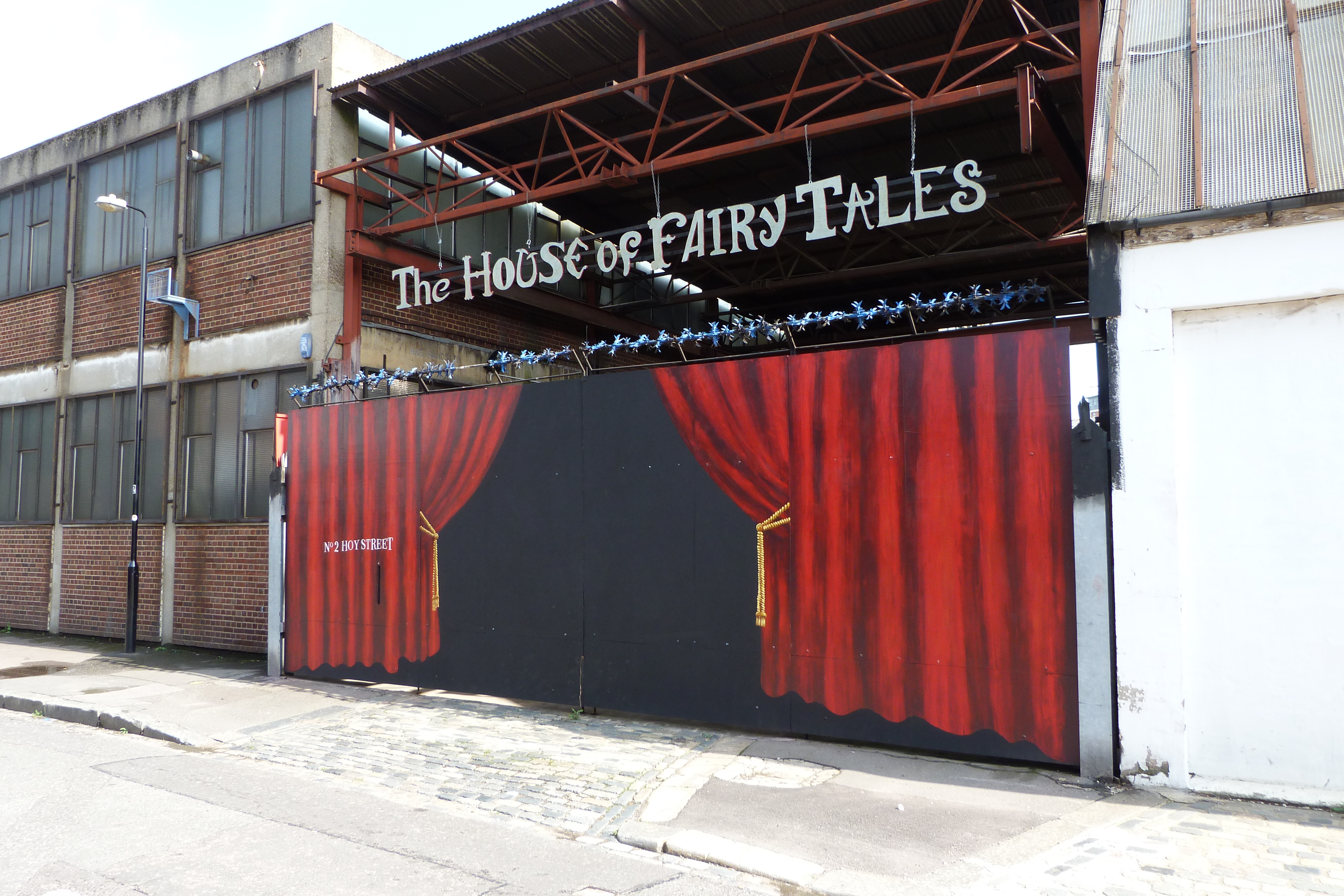 House of Fairy Tales, Blenheim House, 2 Hoy Street, London, E16 1JX, UK.